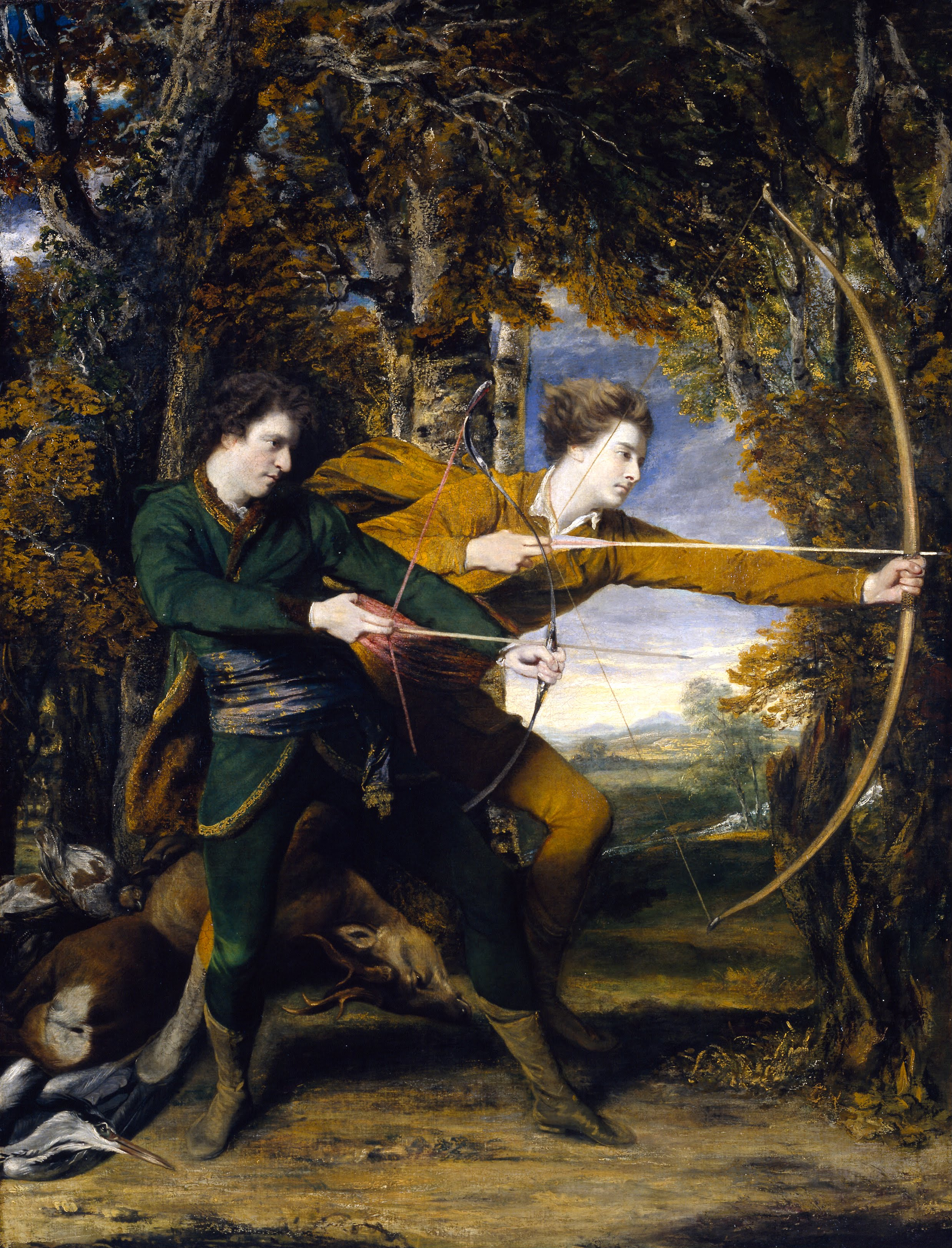 Features MP Colonel John Dyke Acland (1746 -1778) and diplomat Dudley Alexander Sydney Cosby (1732-1774).